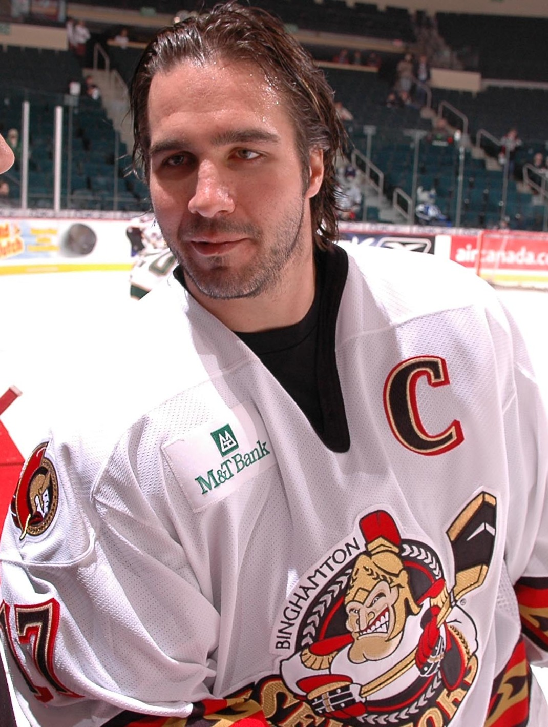 Photo: Matthew Manor/AHL